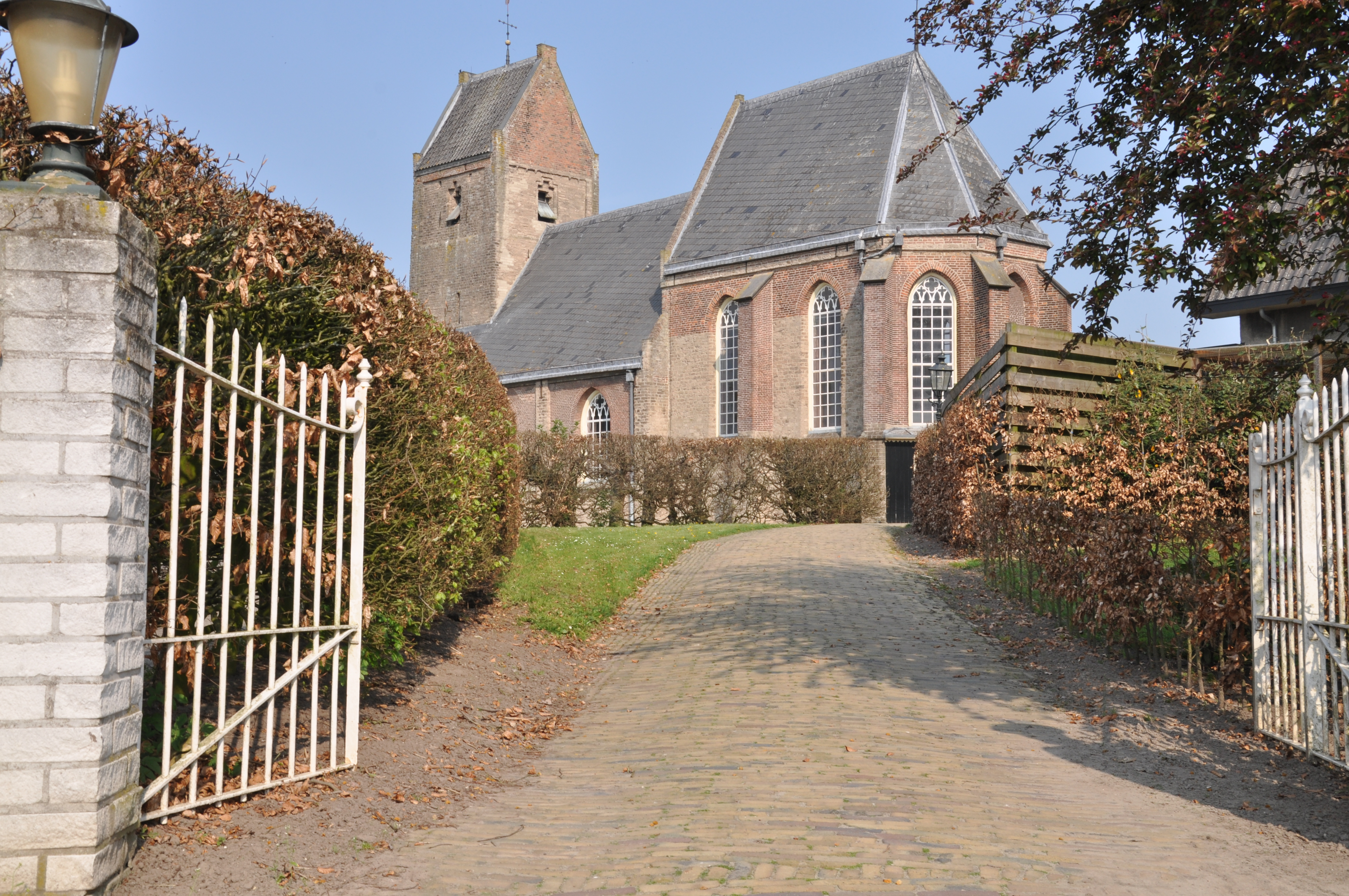 Church at Vorchten Gelderland